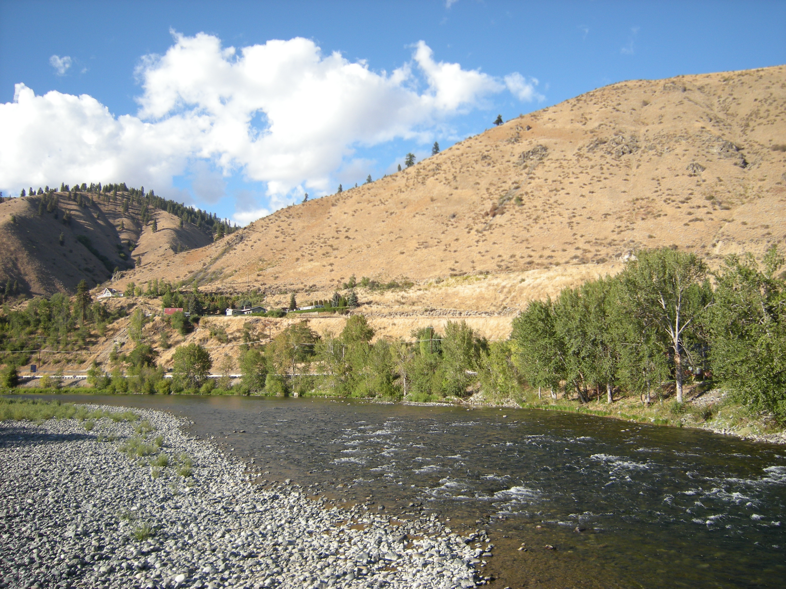 Wenatchee River at Cashmere, Washington.